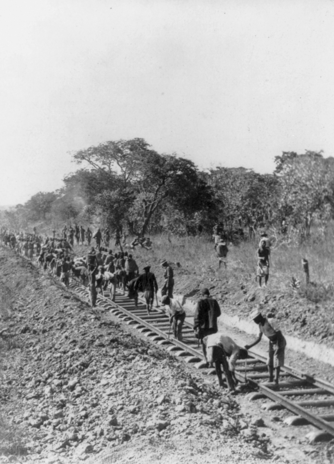 The building of a railway as part of Rhodesian Railways near Kabwe, Zambia then Broken Hill sometime around 1906.